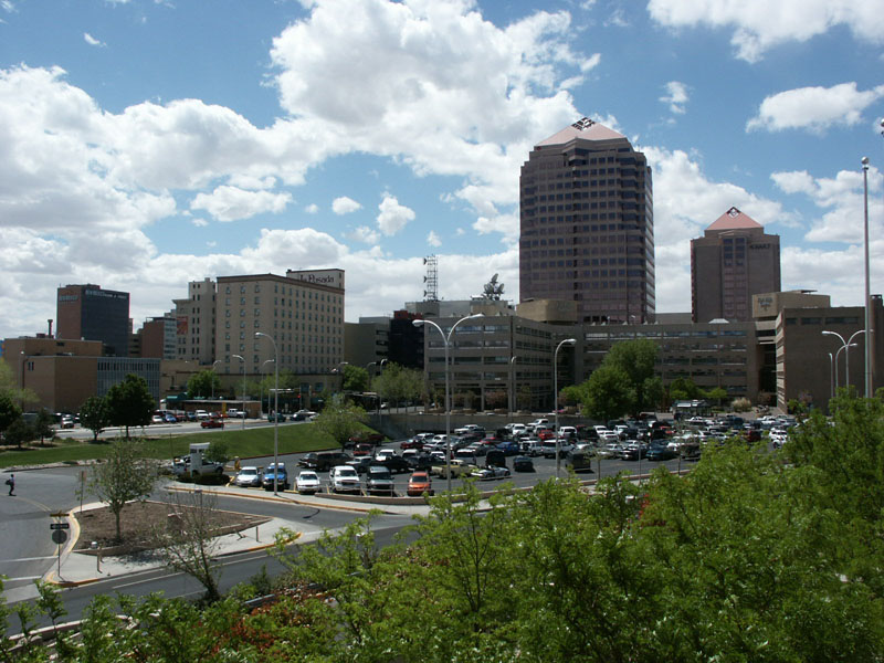 Photo of downtown Albuquerque, New Mexico, USA.